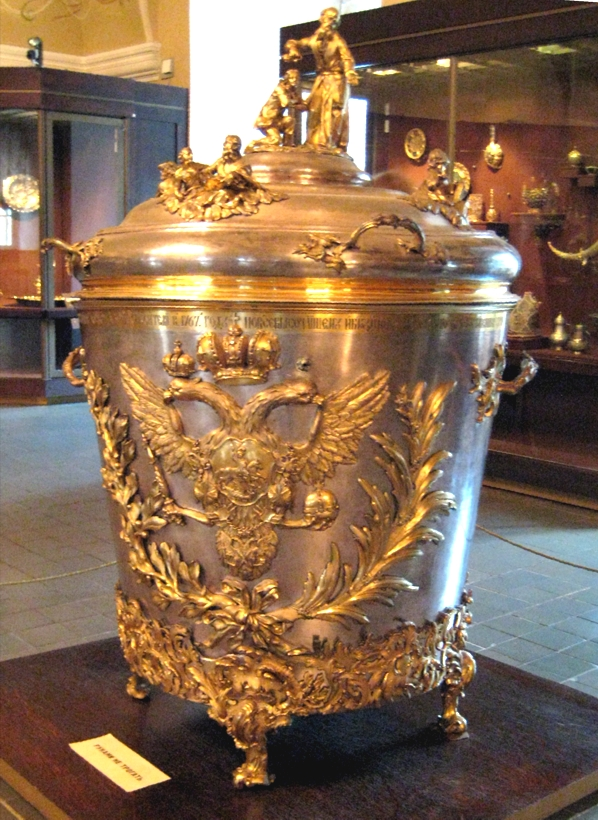 A a large cauldron for the blessing of chrism (Patriarchal Palace, Moscow Kremlin).